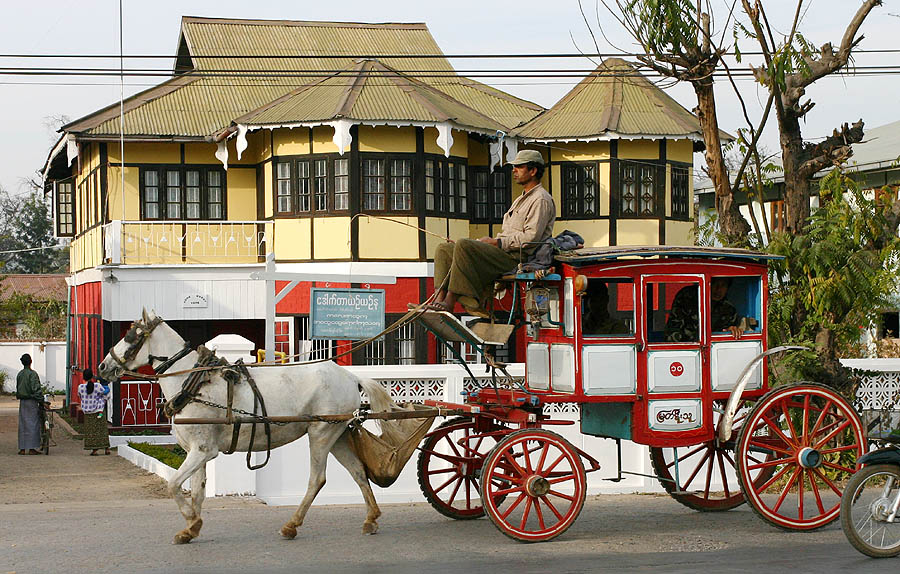 Unique horse carriages and British colonial houses make Pyin U Lwin stand out from the rest of the Myanmar towns.